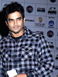 Indian actor R. Madhavan at the Bryan Adams concert, 2011